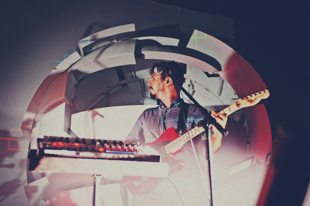 j.viewz live at Terminal 5 in New York, NY, Aug 11th, 2012